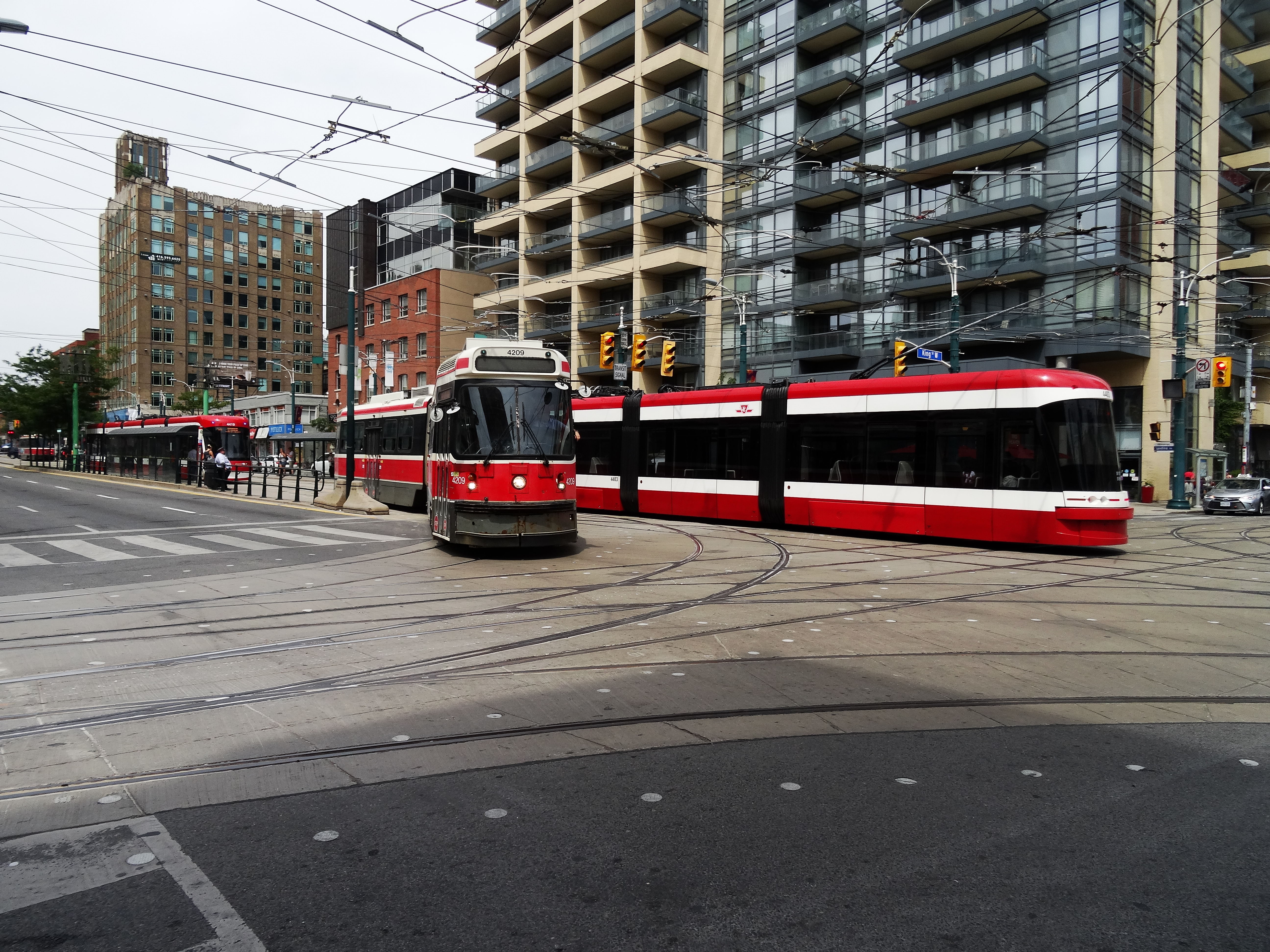 New Flexity LR vehicles approach Spadina and King, 2016 07 21 (15).JPG